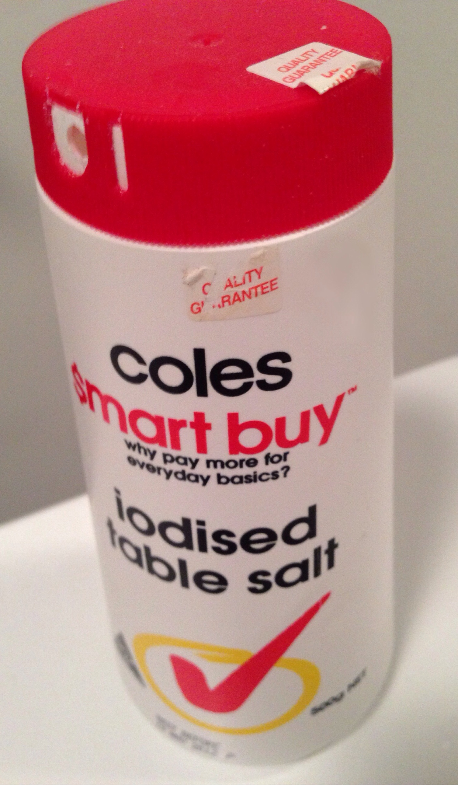 Iodised Salt from Coles home brand Smart Buy in 'tick' branding.